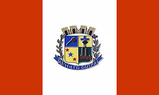 Flags of the city of Astolfo Dutra, Minas Gerais , Brazil.